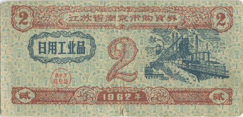 Chinese ration stamp (goods coupon) in 1962 scanner by farm